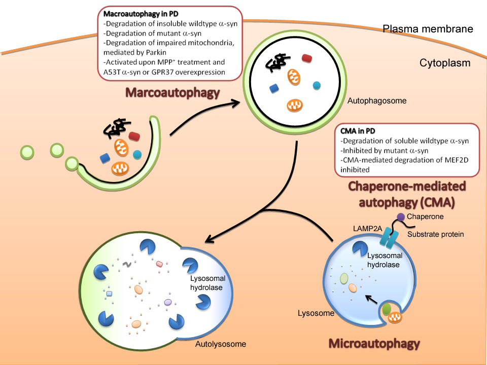 Implication of autophagy deregulation in Parkinson's disease (PD). There are 3 types of autophagy: macroautophagy, microautophagy and chaperone-mediated autophagy (CMA). Deregulation of both macroautophagy and CMA are implicated in the pathogenesis of PD. CMA is involved in the degradation of soluble wildtype alpha-synuclein, the major constituent of Lewy bodies. Nonetheless, once oligomerized or aggregated, alpha-synuclein is likely degraded by macroautophagy instead of CMA. Interestingly, A53T and A30P mutants of alpha-synuclein are poorly degraded by CMA, but are instead degraded by macroautophagy. Furthermore, the alpha-synuclein mutants inhibit CMA, reducing CMA-mediated degradation of alpha-synuclein and survival factor MEF2D. Concomitant with the inhibition of CMA, overexpression of alpha-synuclein mutants results in a compensatory activation of macroautophagy. Activation of macroautophagy is also evident in cells treated with neurotoxin MPP+, a well-established model for Parkinsonism, or following overexpression of GPR37, another protein that is present in Lewy bodies. Finally, recent studies reveal that macroautophagy also plays a role in the turnover of fragmented mitochondria. These observations highlight the potential involvement of the autophagic pathways in the pathogenesis of PD.